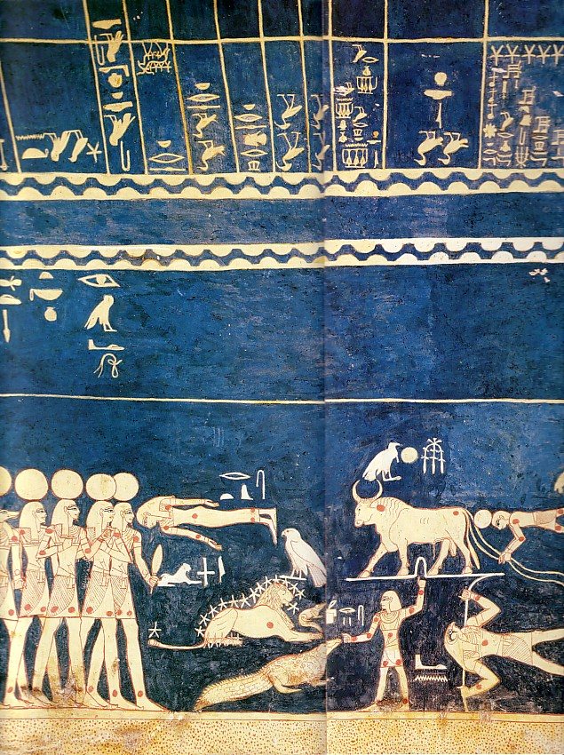 a frescos to the senmut's tomb, ancient egypt